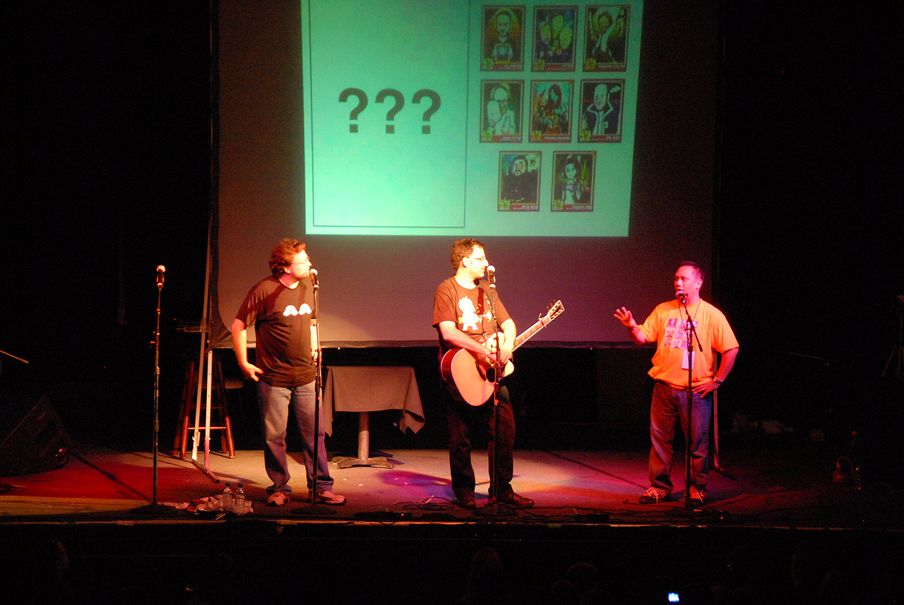 Len Peralta joins Paul & Storm onstage Shot from the cheap seats with no flash